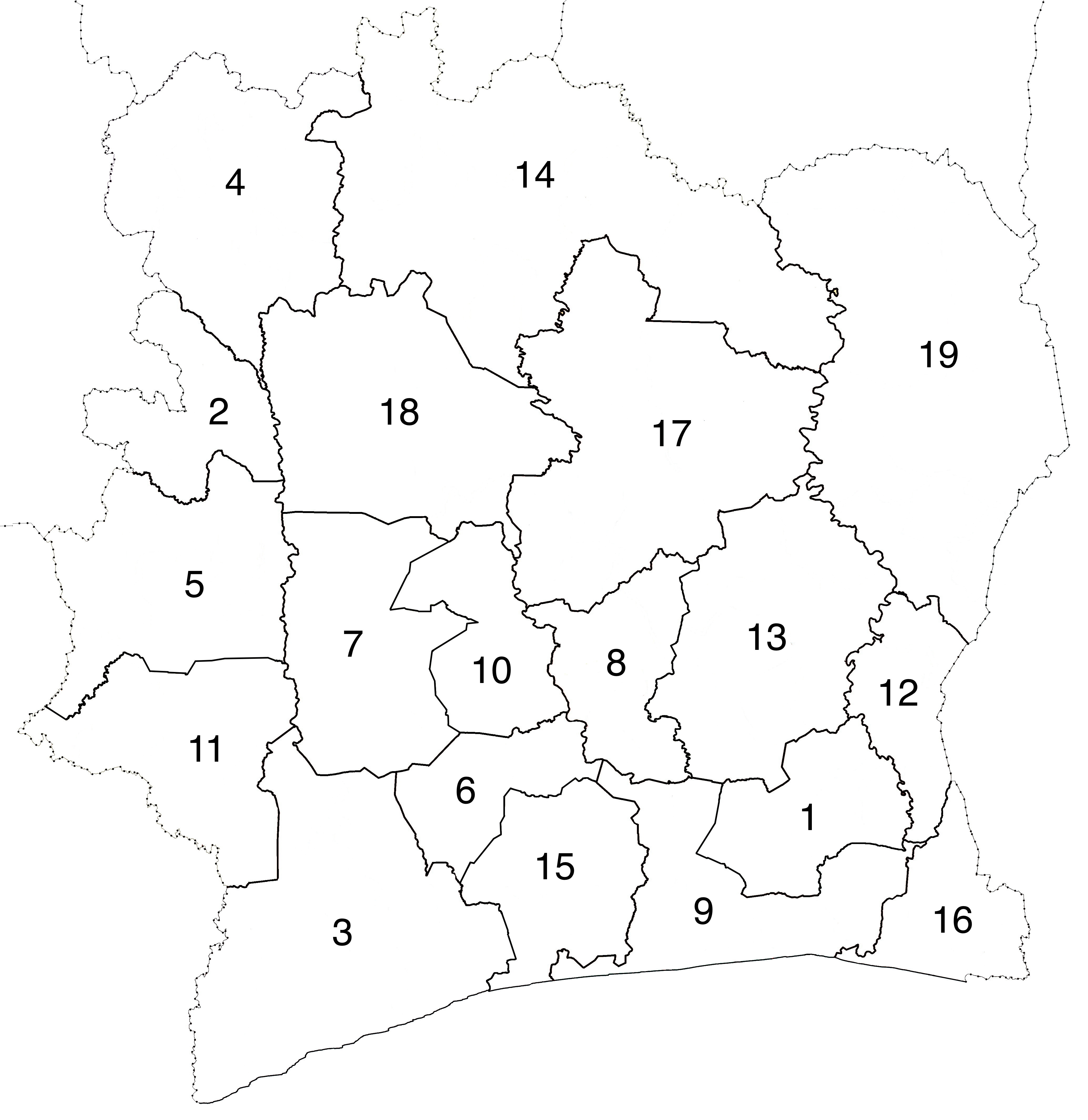 Map of the regions of Côte d'Ivoire as they existed from 2000 to 2011. Key: 1. Agnéby 2. Bafing 3. Bas-Sassandra 4. Denguélé 5. Dix-Huit Montagnes 6. Fromager 7. Haut-Sassandra 8. Lacs 9. Lagunes 10. Marahoué 11. Moyen-Cavally 12. Moyen-Comoé 13. N'Zi-Comoé 14. Savanes 15. Sud-Bandama 16. Sud-Comoé 17. Vallée du Bandama 18. Worodougou 19. Zanzan